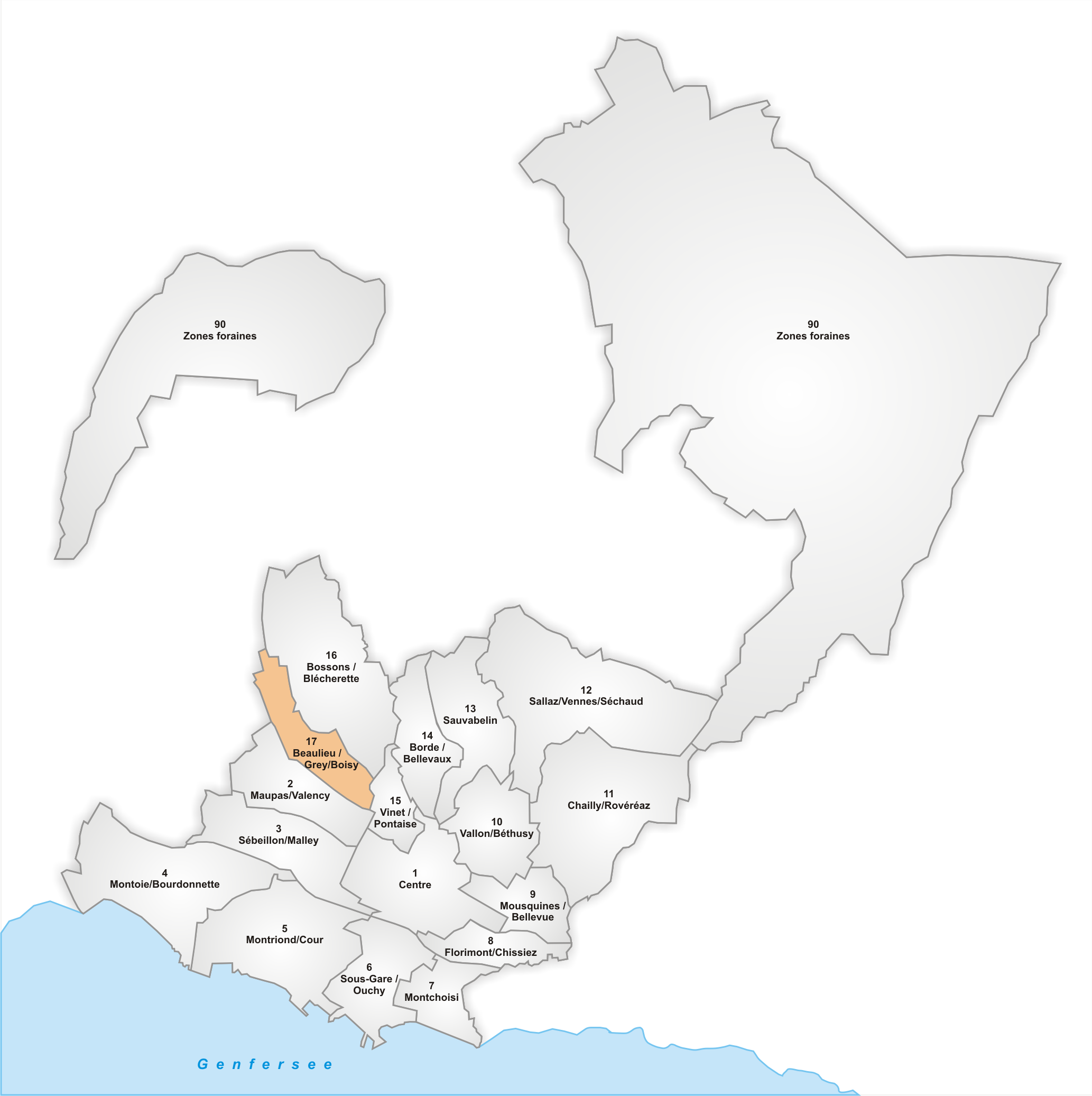 Lausanne Quarter 17